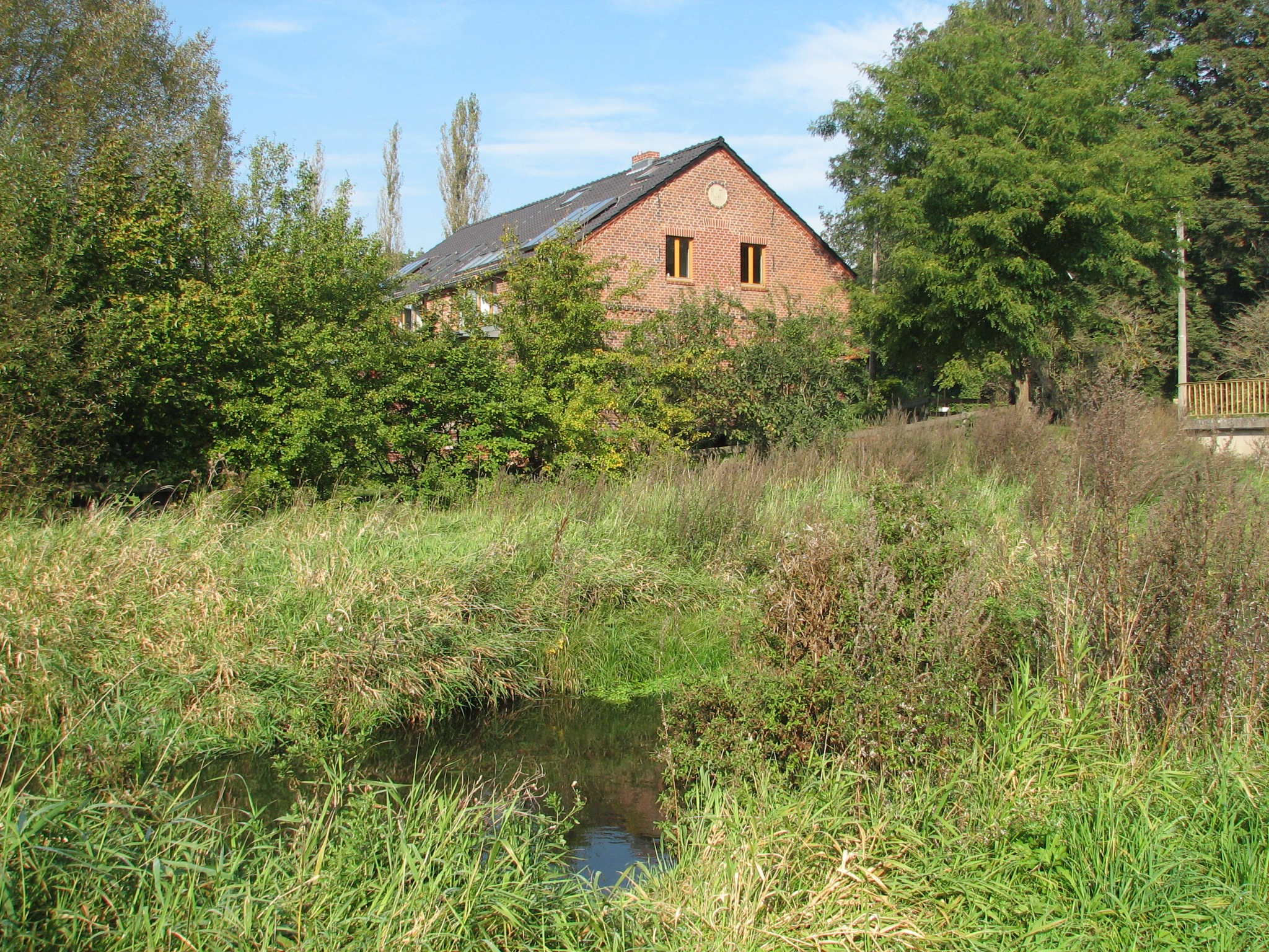 At this spot stood the former Heidemühle, which once belonged to the village Münchehofe.